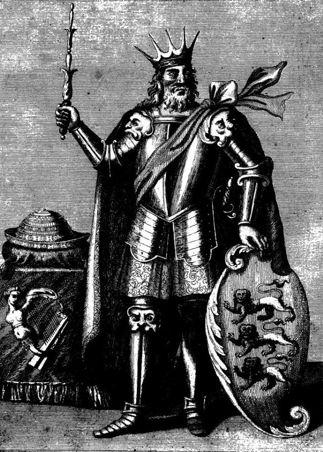 One of the earliest and most well known depictions of Brian on the front piece of the 1723 publication of "The General History of Ireland" translation of Keating's " Foras feasa ar Éirinn" by Dermot O'Connor. [1]